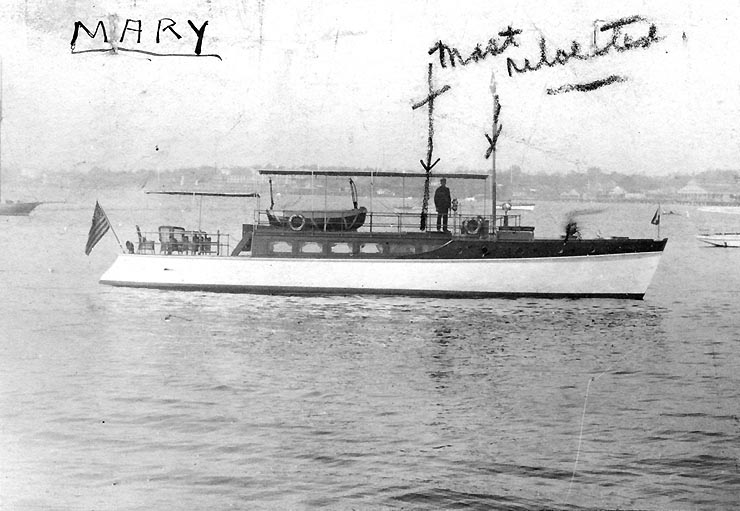 The motorboat Mary, scheduled to serve as the United States Navy patrol vessel USS Mary (SP-462) but never taken over by the Navy